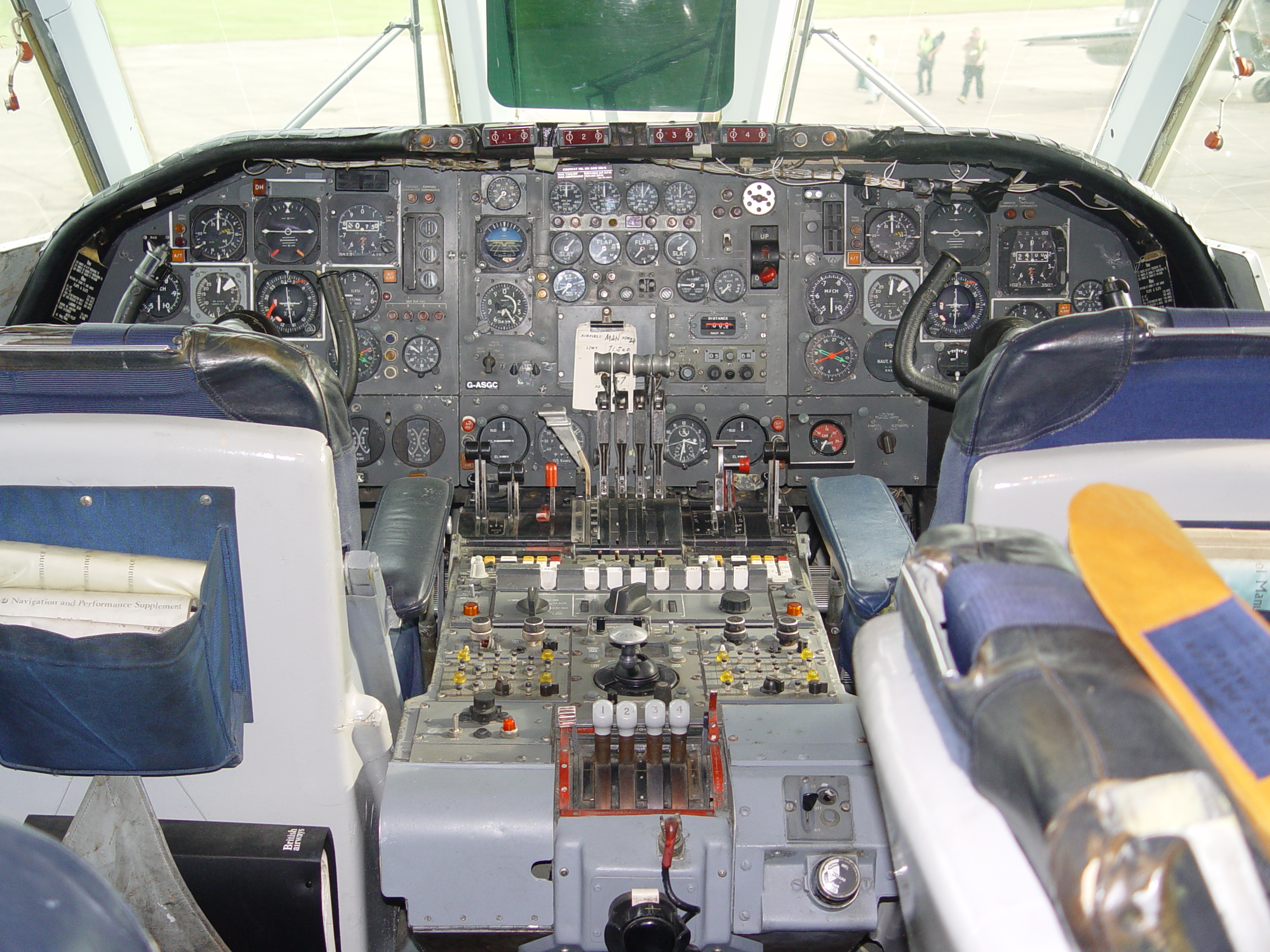 Flight deck of the Vickers VC10 aircraft